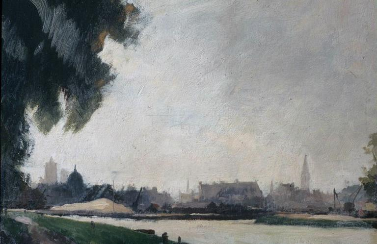 View of the port of Caen, basins Saint Pierre and Saint Jean, under a sky full of clouds.